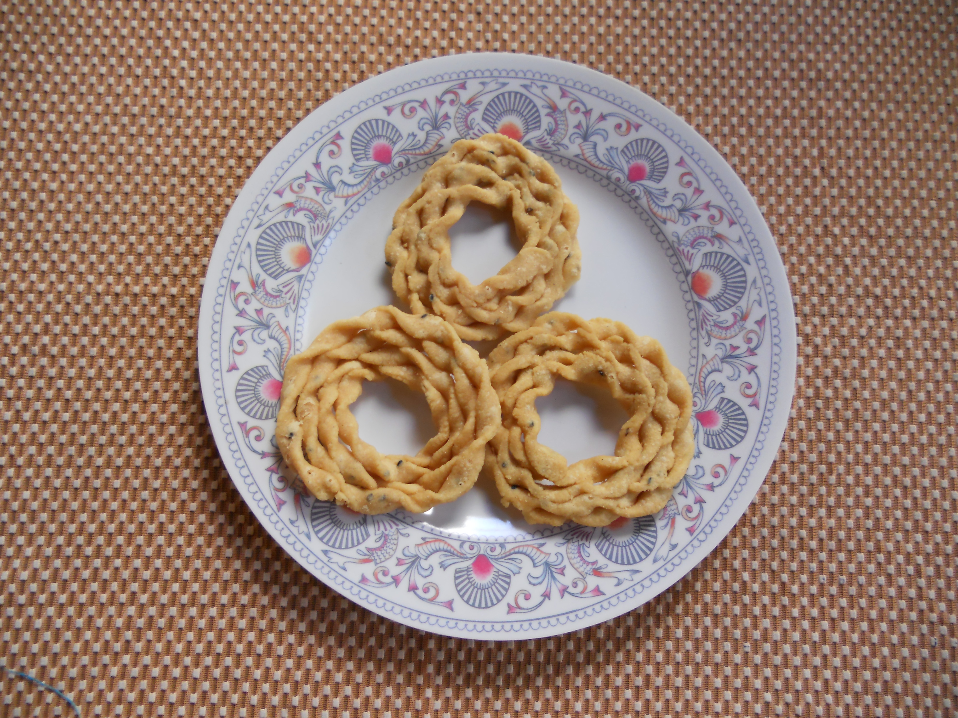 Murukku is a savoury snack popular in India and Sri Lanka, originating in the cuisine of the Indian state of Tamil Nadu.